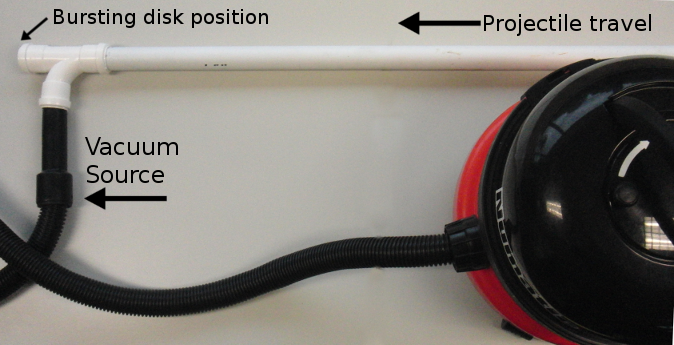 Photo of a simple vacuum cannon setup with annotation of key features.